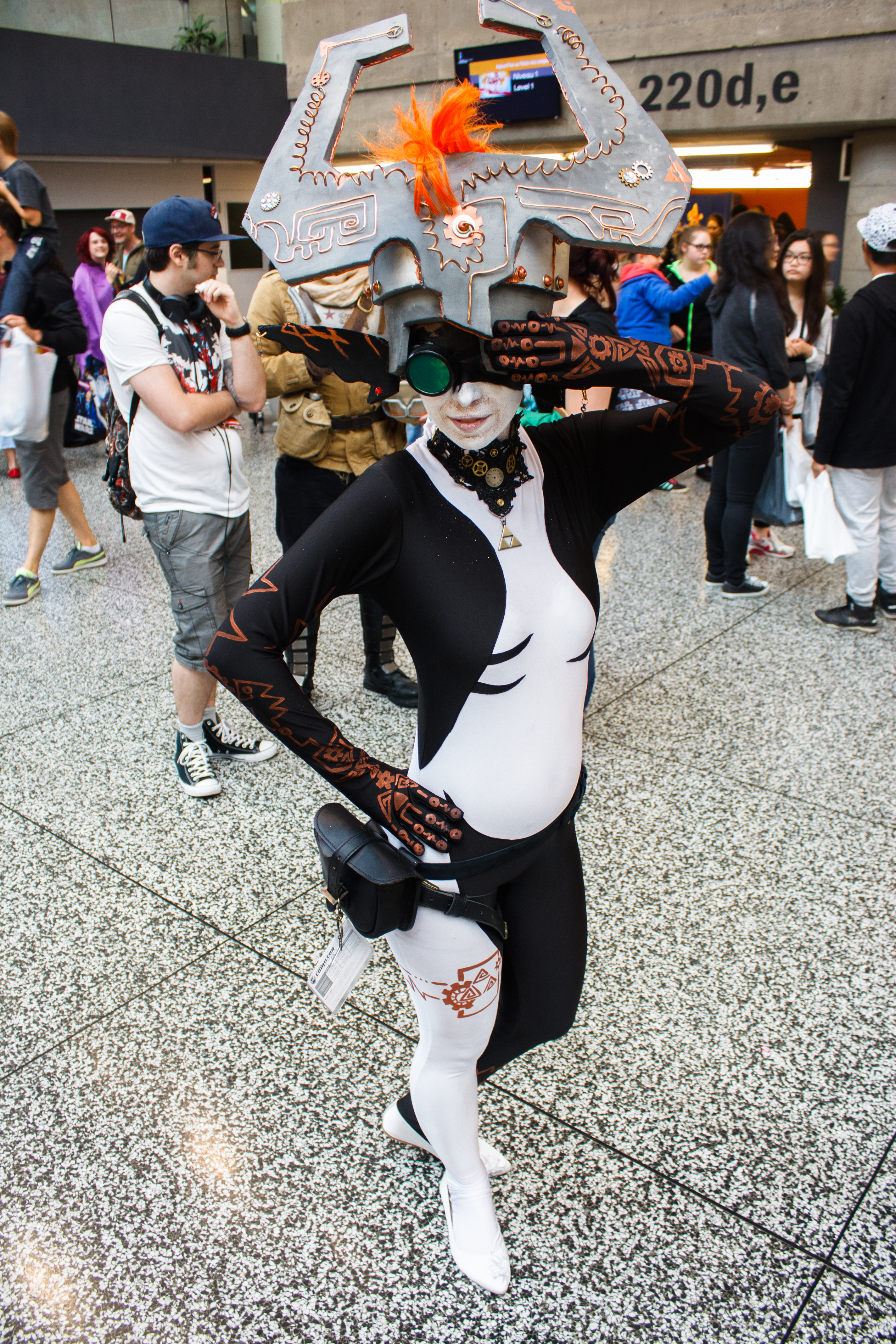 Cosplay of Cyborg Midna (from The Legend of Zelda franchise) on Sunday, day three, of the Montreal Comiccon 2016.